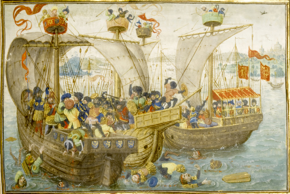 A Naval Battle; Antwerp, after 1464, from the Roman de Gillion de Trazegnies, fol. 21. Lieven van Lathem (1430–1493), Getty Center